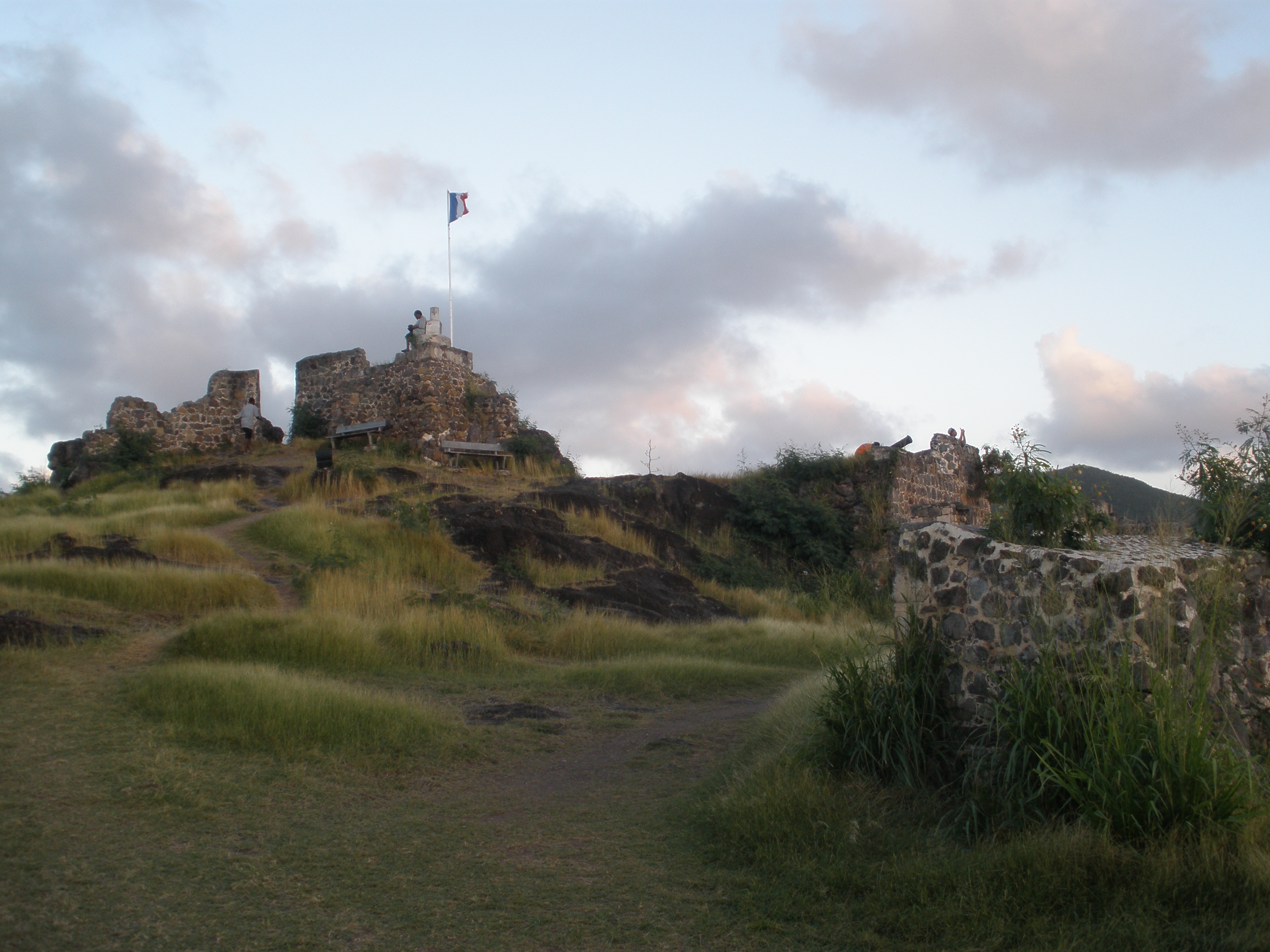 This old French fort overlooks the town of Marigot, Saint-Martin